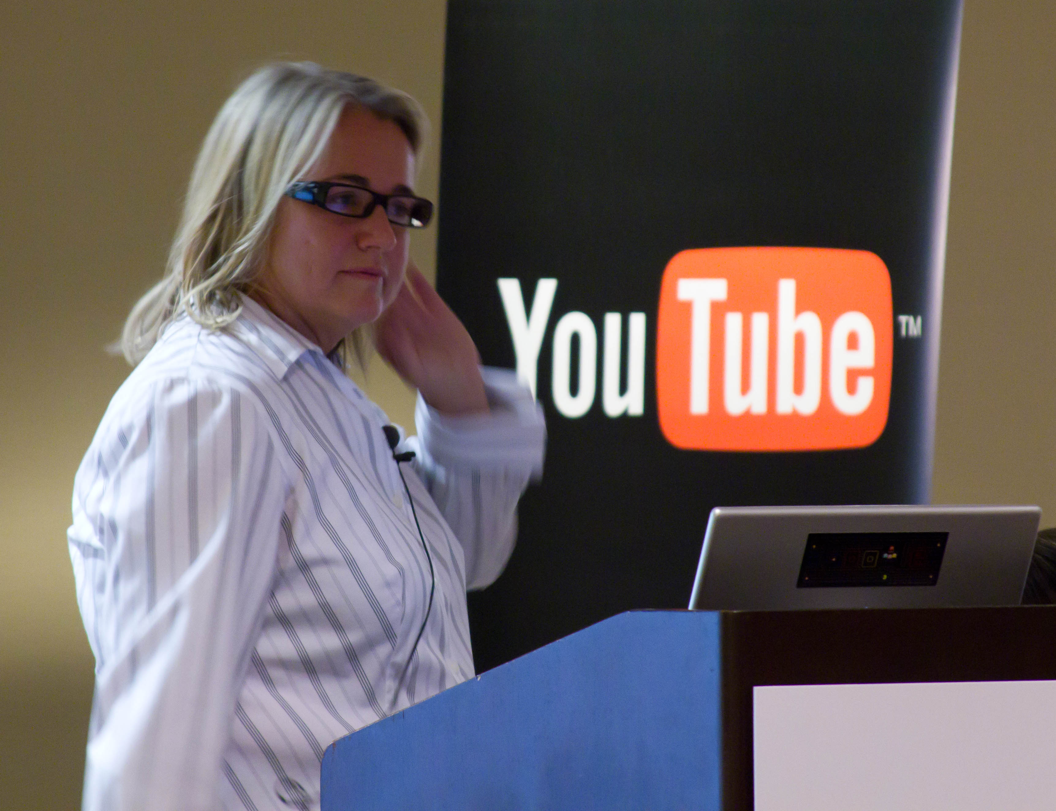 Feel free to use this image just link to